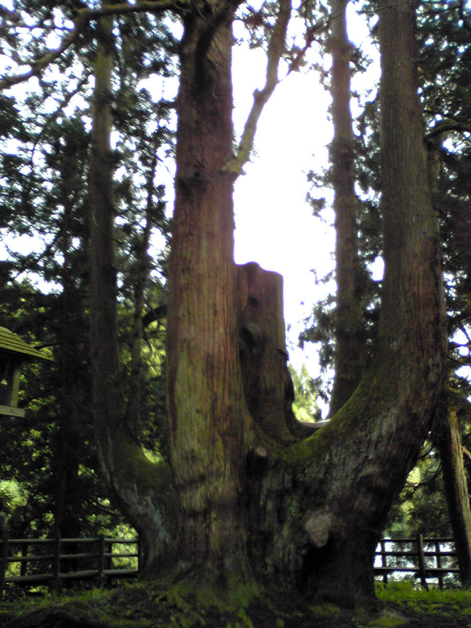 The Sugi called Shogunsugi (general sugi) in Aga town, Niigata pref., Japan. There was the time said that length around a trunk was the longest in Japan.